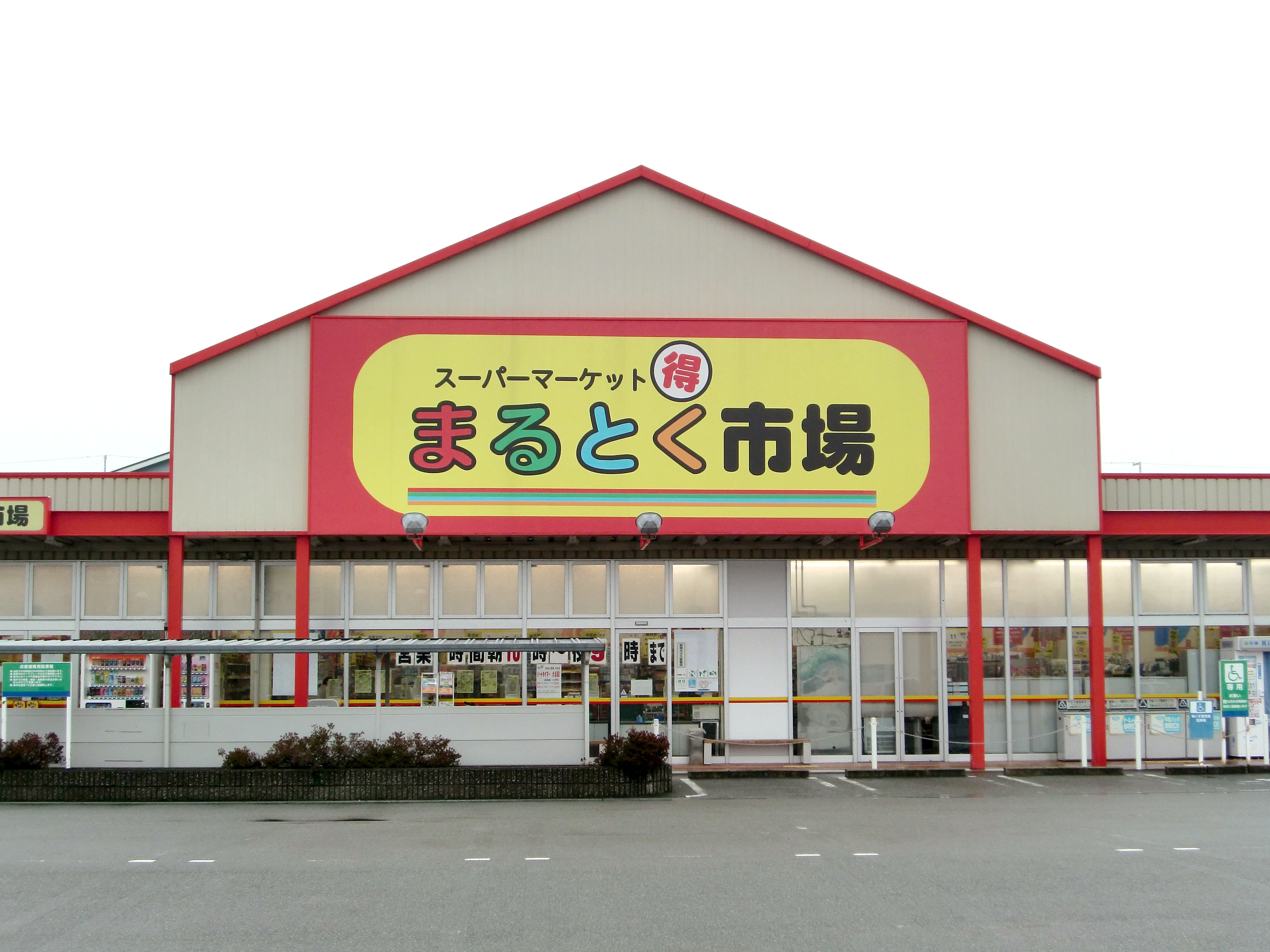 1Marutoku Ichiba Hirata,2-19-30 Hirata Ibaraki-City Osaka Japan.